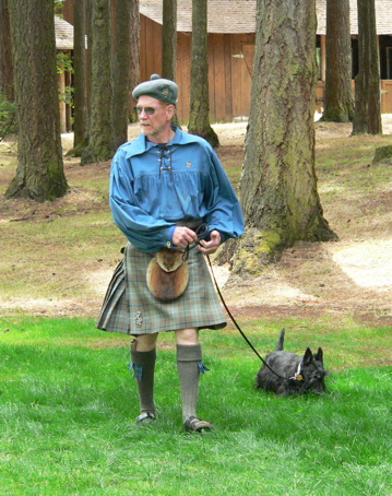 A kilted man walks his Scottie dog on the grounds of the 2007 Tacoma Highland Games.